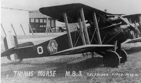 Description: MB-3 Pursuit at Selfridge Field.